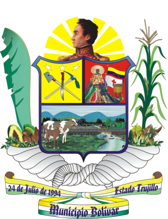 Escudo del Municipio Bolívar